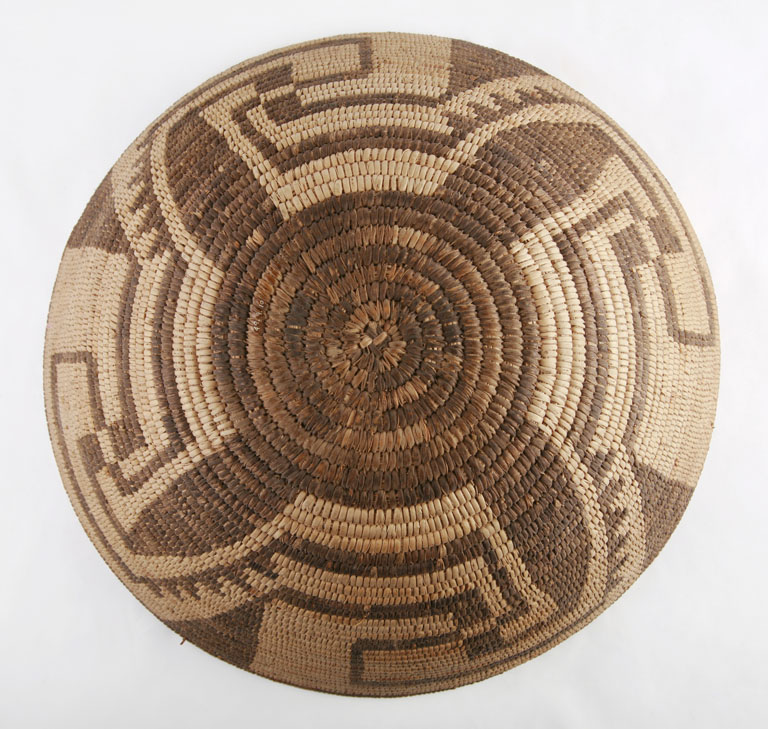 A grain basket in the permanent collection of The Children’s Museum of Indianapolis.